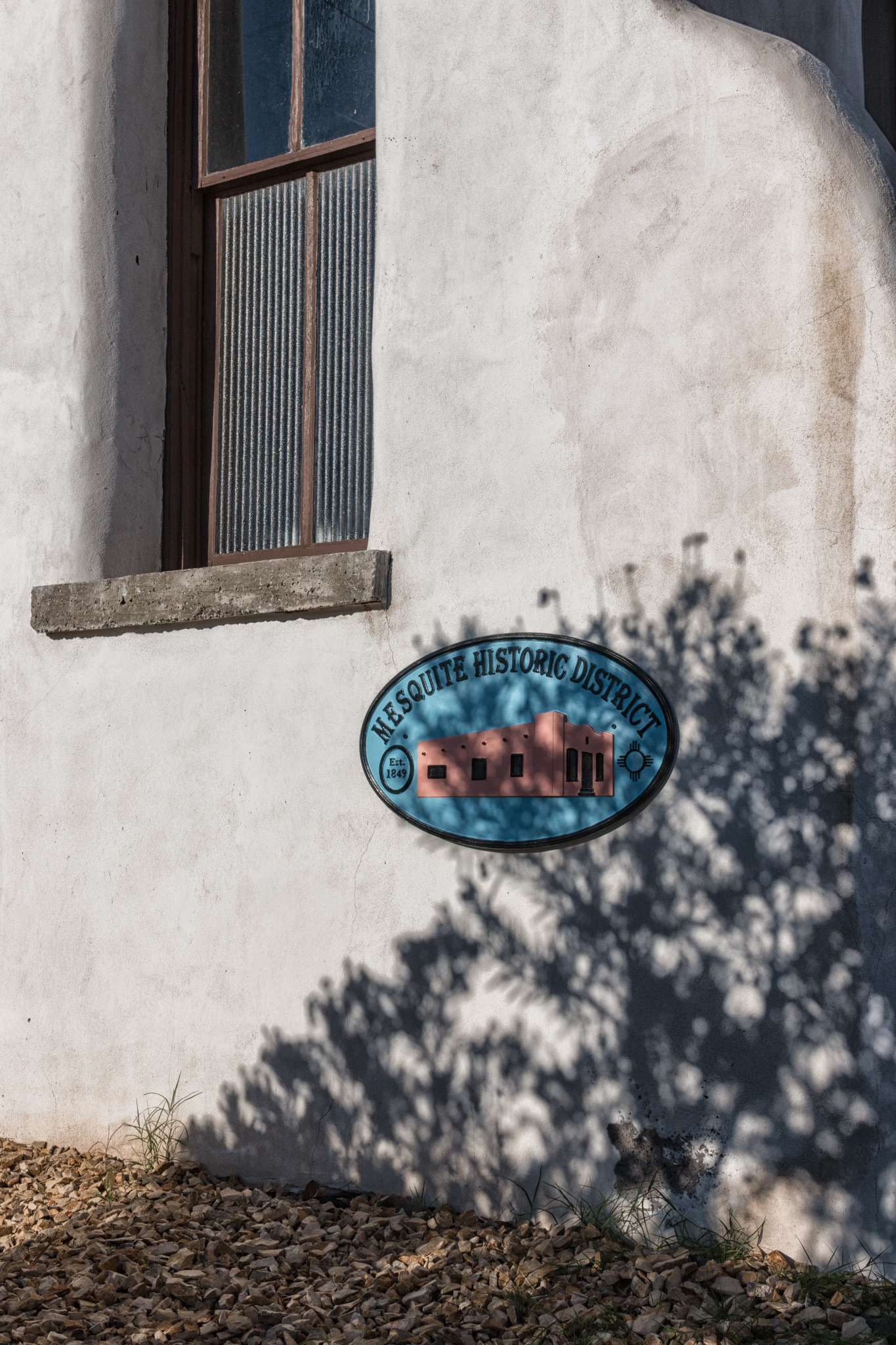 This is a view of the Mesquite Historic District commemorative plaque on the Phillips Chapel CME church in Las Cruce, NM, USA, after the restoration that started in 2010.